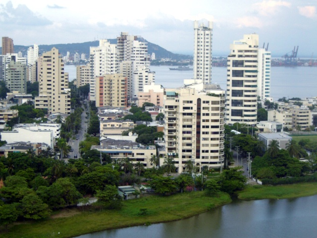 Vista de Bocagrande en Cartagena y al fondo puede observarse el puerto de la ciudad. View of the Bocagrande neighborhood in Cartagena. The dock can be seen in the background.